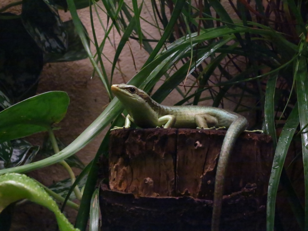 This is a Trachylepis affinis at the Antwerp zoo, 2017.